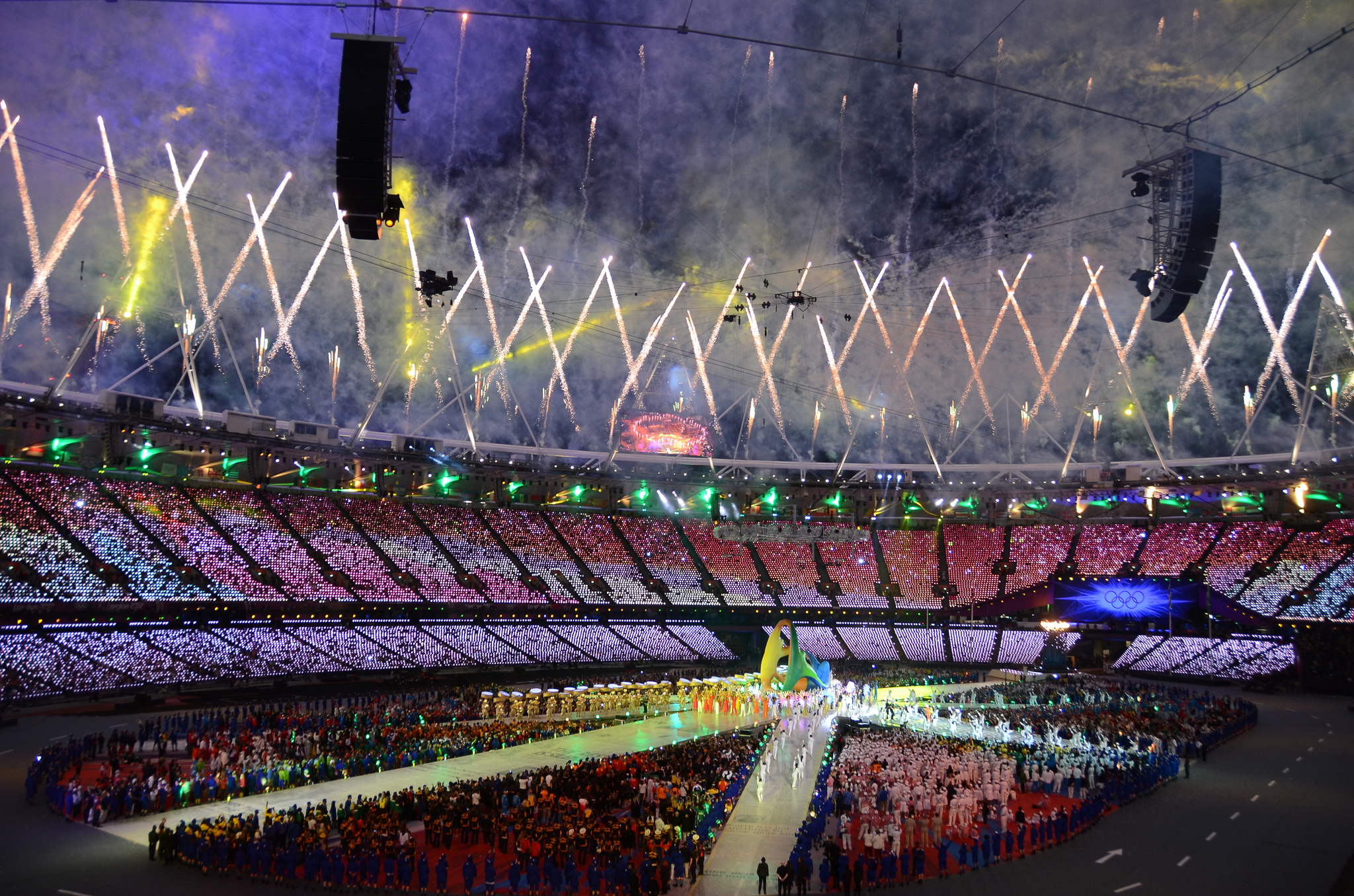 I was fortunate to attend the closing ceremony of the London 2012 Olympics. All my senses were melted by the amazing experience